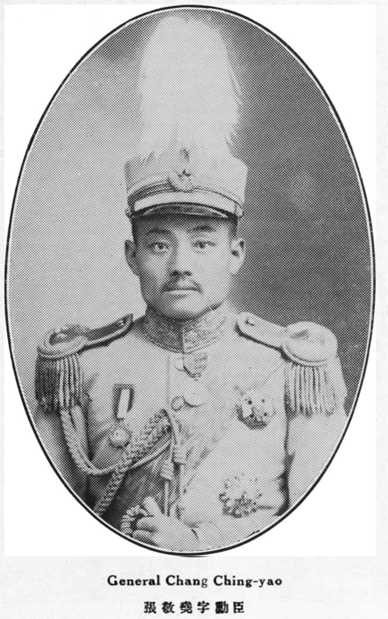 Zhang Jingyao(1880 - 1933)